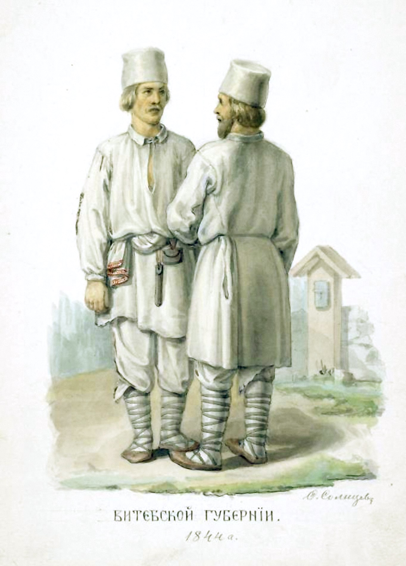 National costumes of Belarus